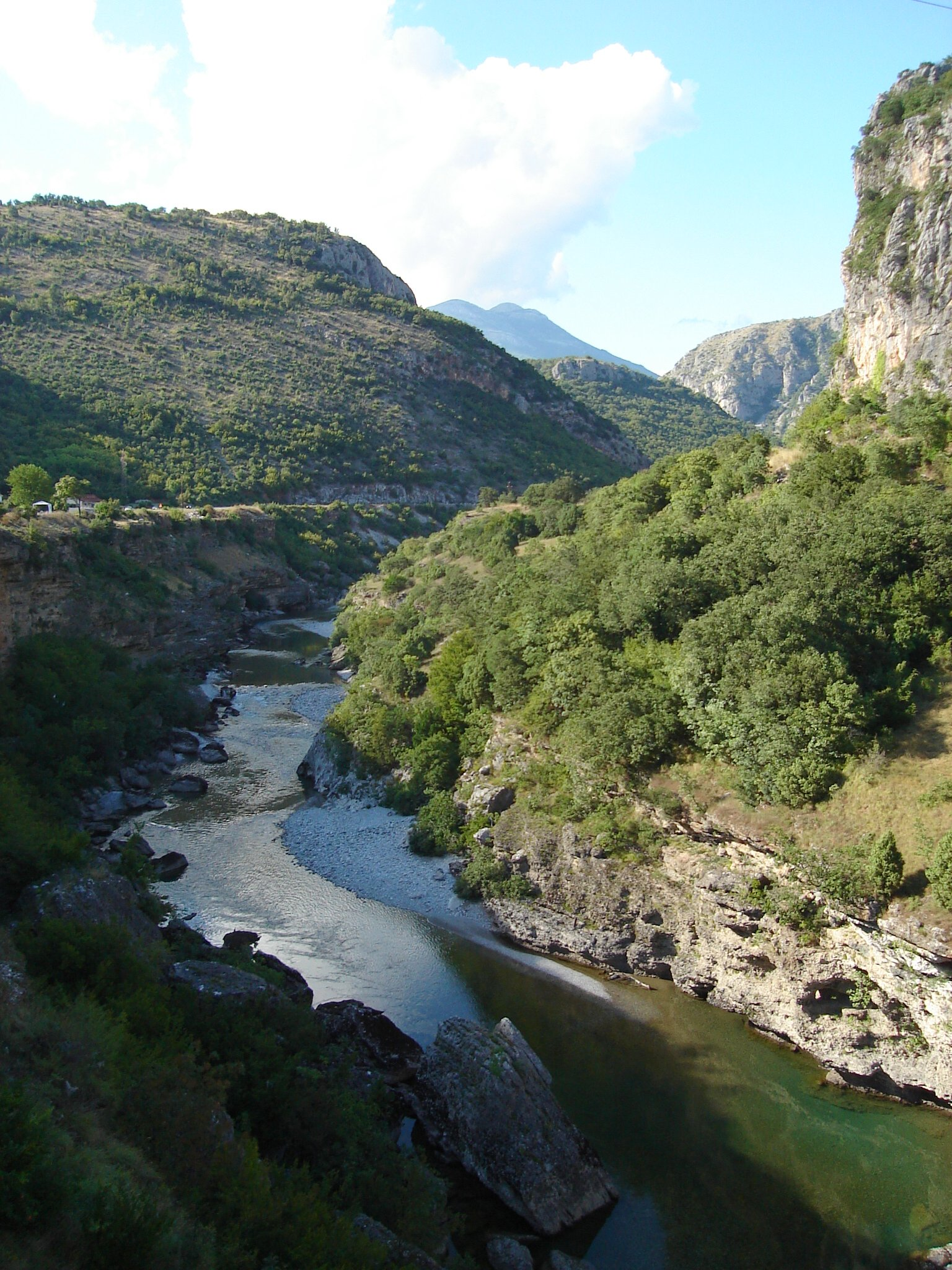 Morača valley north of Podgorica in Montenegro